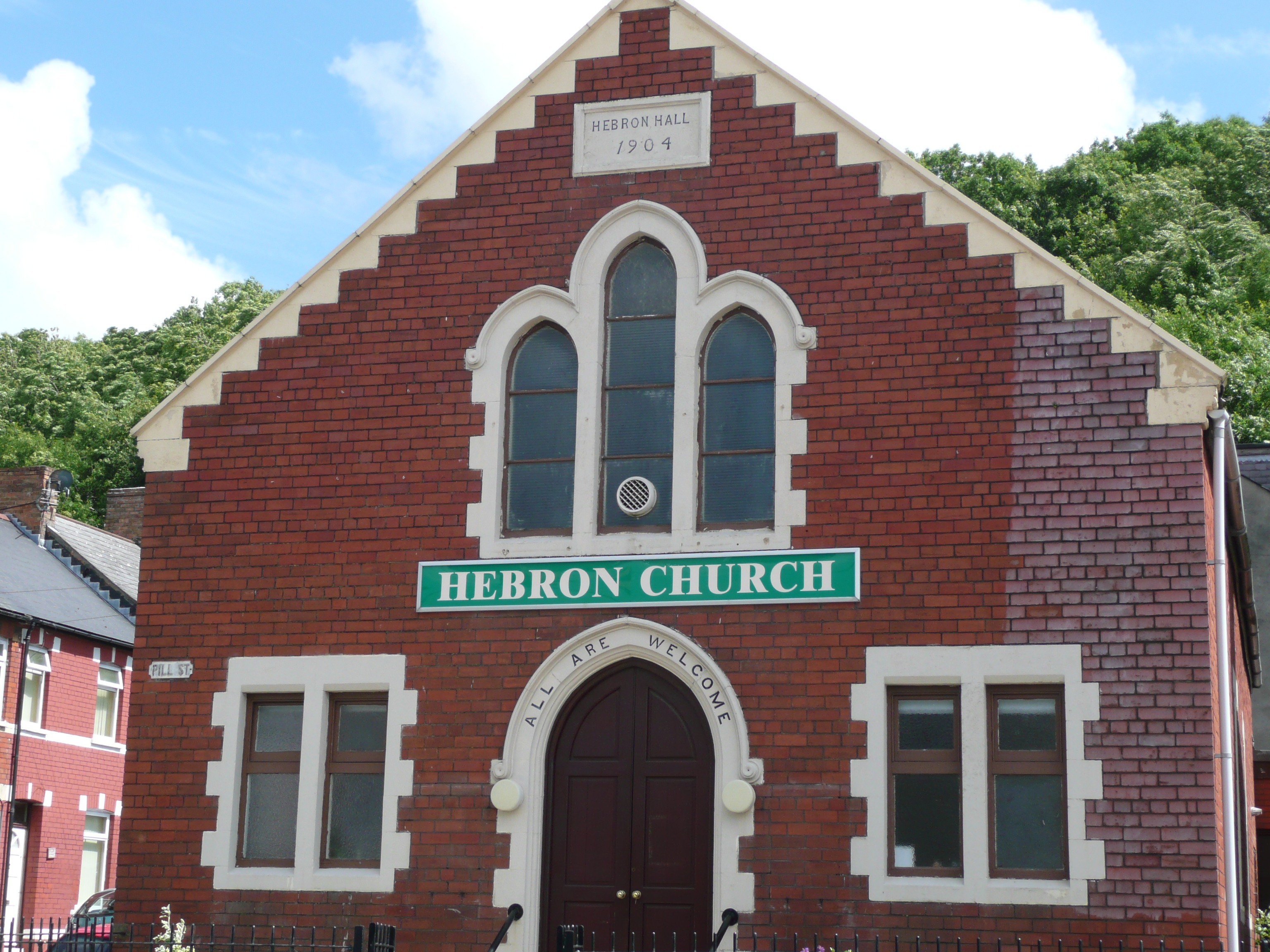 Hebron Church Cogan, near Penarth